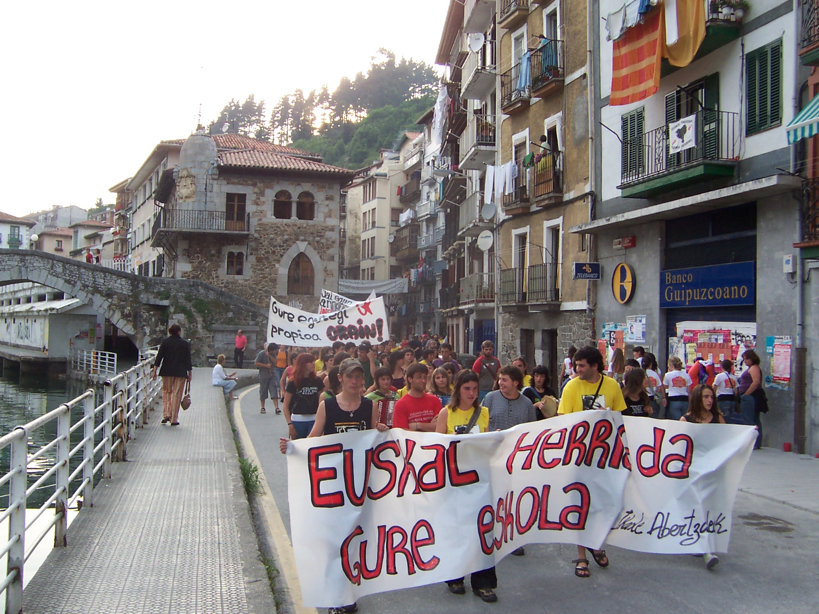 Demonstration during Ikasle Abertzaleak's Eskola Ibiltaria act.